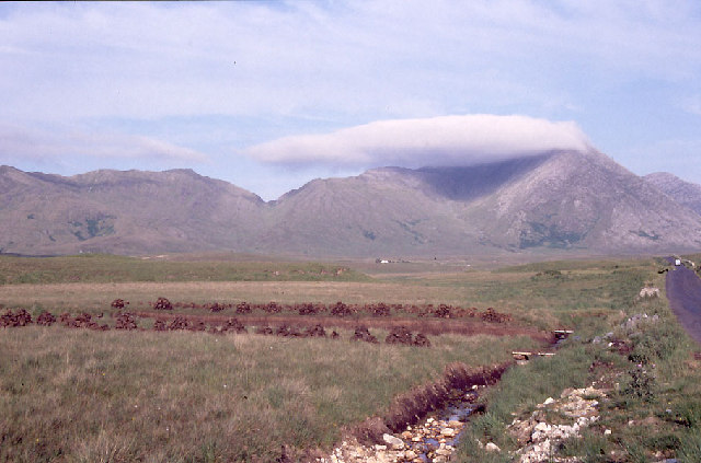 Maumturk Mountains, County Galway, Ireland, with peat stacked for drying. Letterbreckaun is in cloud